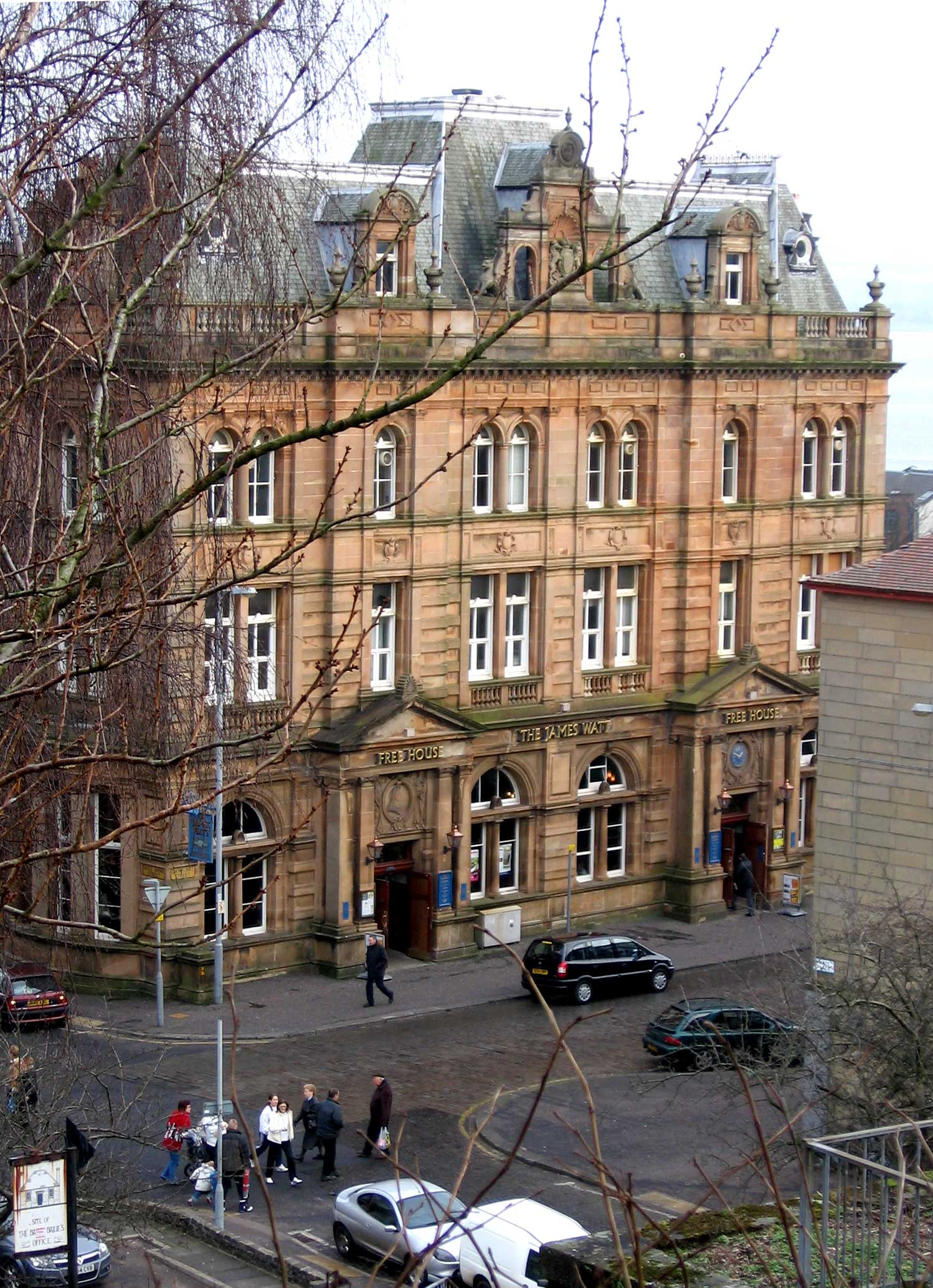 sGreenock's old main Post Office, converted to The James (or Jimmy) Watt pub.